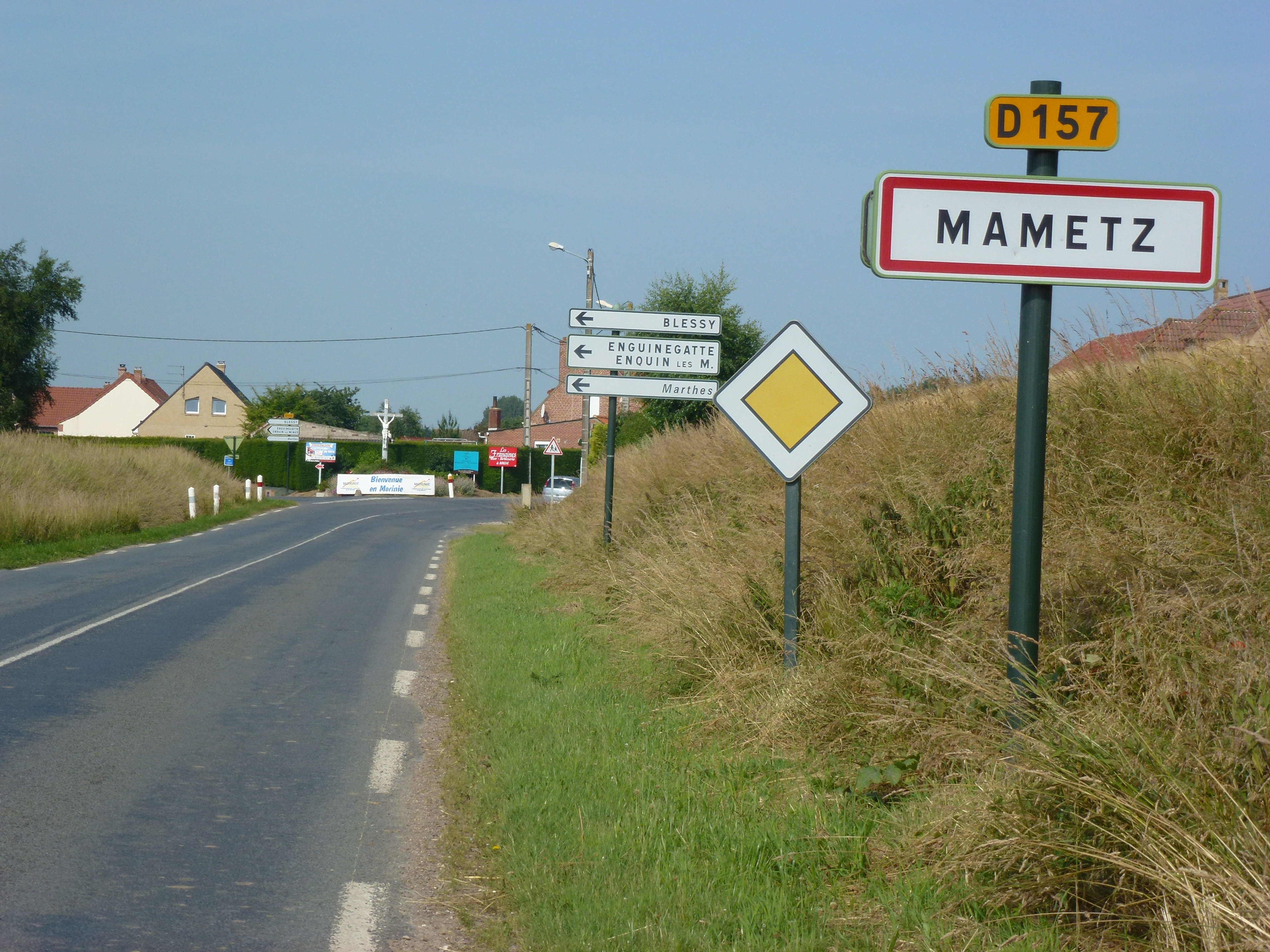 Mametz (Pas-de-Calais, Fr) city limit sign